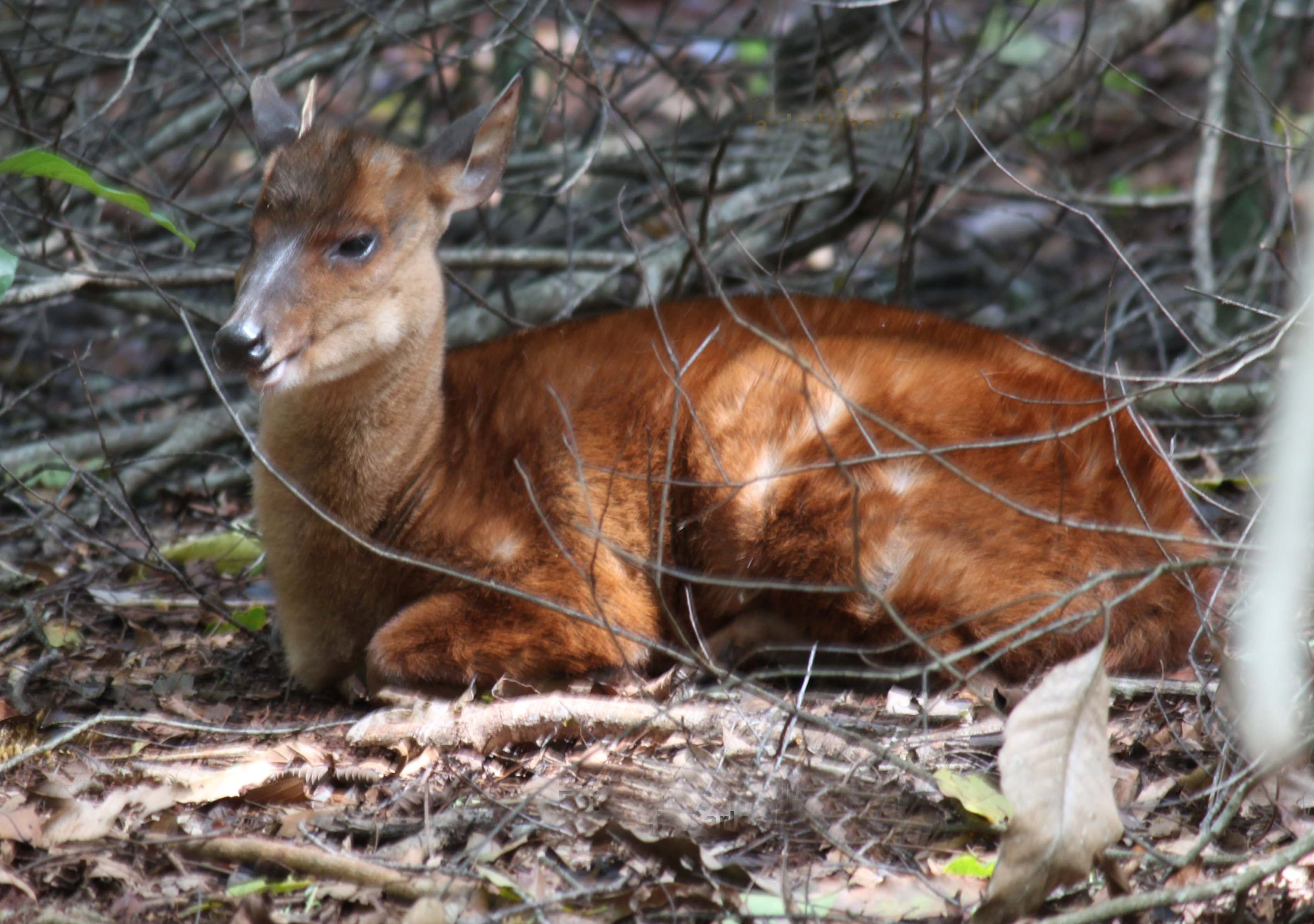 Pygmy brocket (Mazama nana) in Itaipu Wildlife Refuge, Paraná, Brazil.